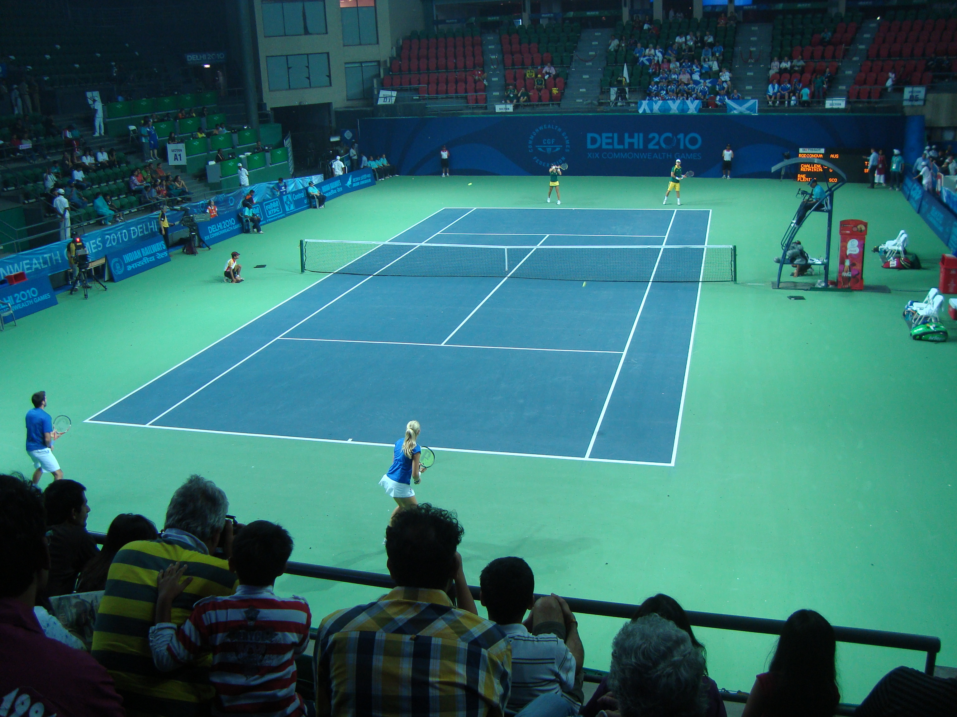 Centre Court of R.K. Khanna Tennis Complex, New Delhi, India. On the occasion of Commonwealth Games 2010. Mixed doubles final between Scotland and Australia